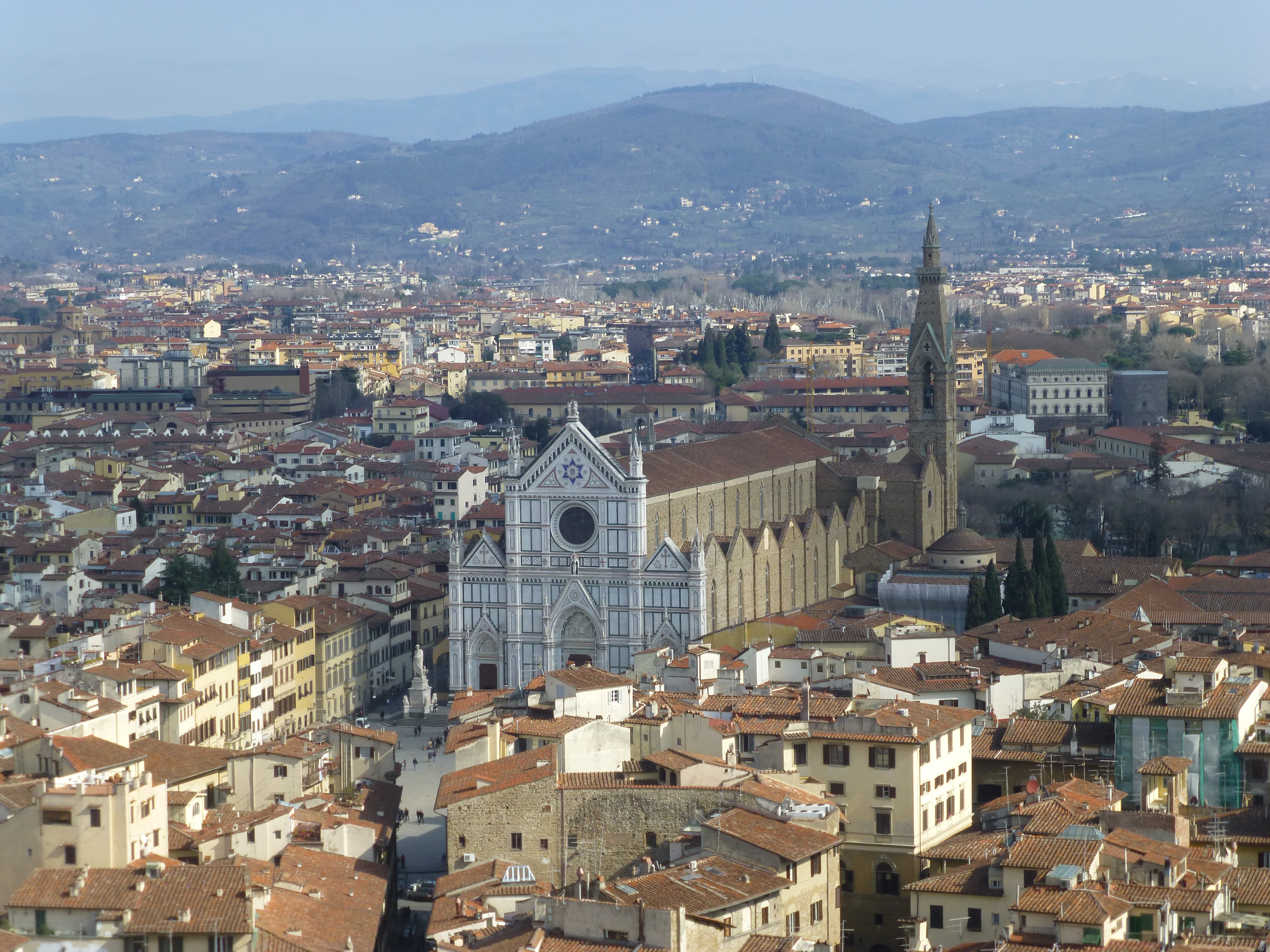 Basilica di Santa Croce, Santa Croce, Centro Storico, Firenze, Italy.